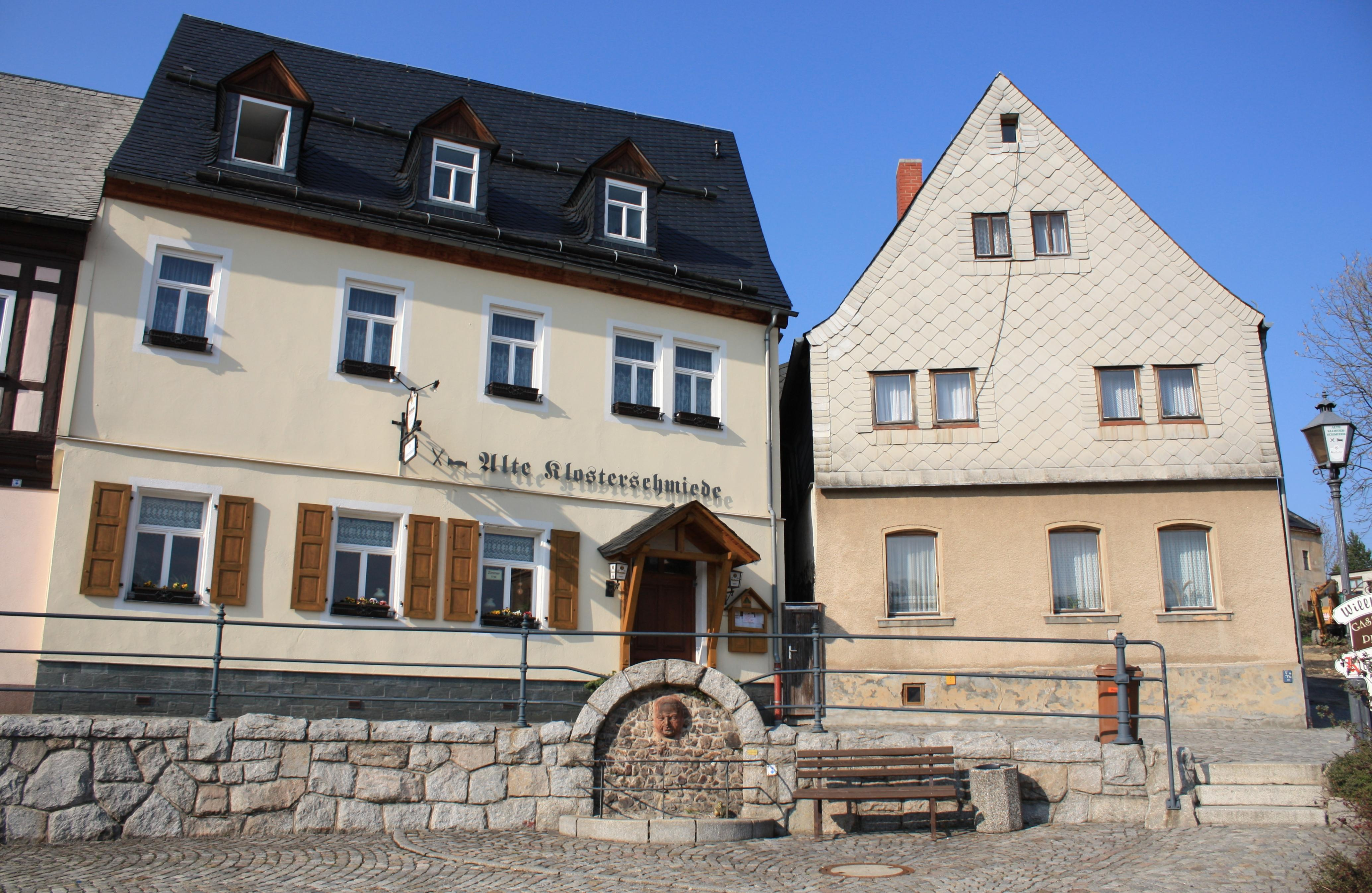 Grünhain, Mönchsbrunnen, Alte Klosterschmiede